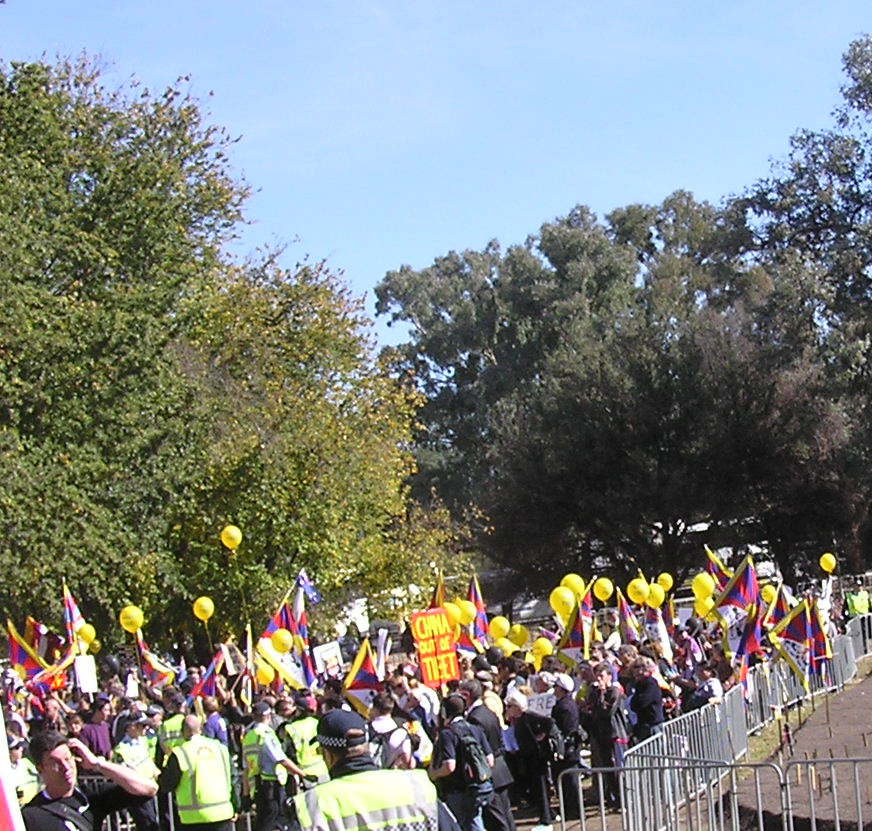 A free Tibet protest at the 2008 Summer Olympics torch relay in Commonwealth Park Canberra